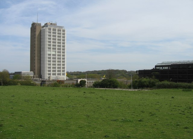 AA head office. See also 668784.